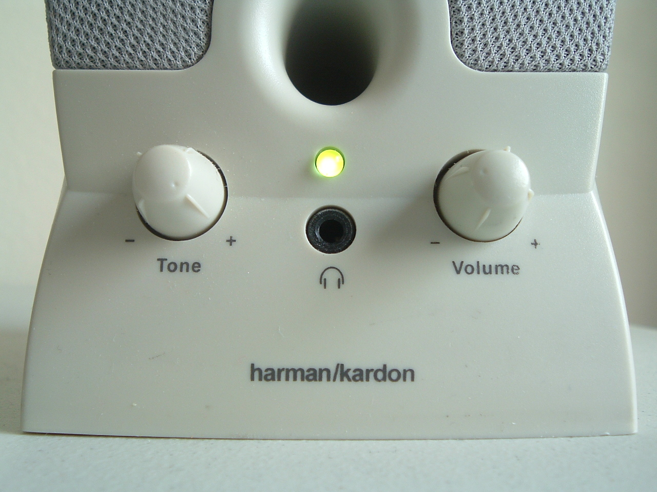 A harman/kardon speaker. Taken by me (Sixteen Left) on Monday, December 19, 2005.